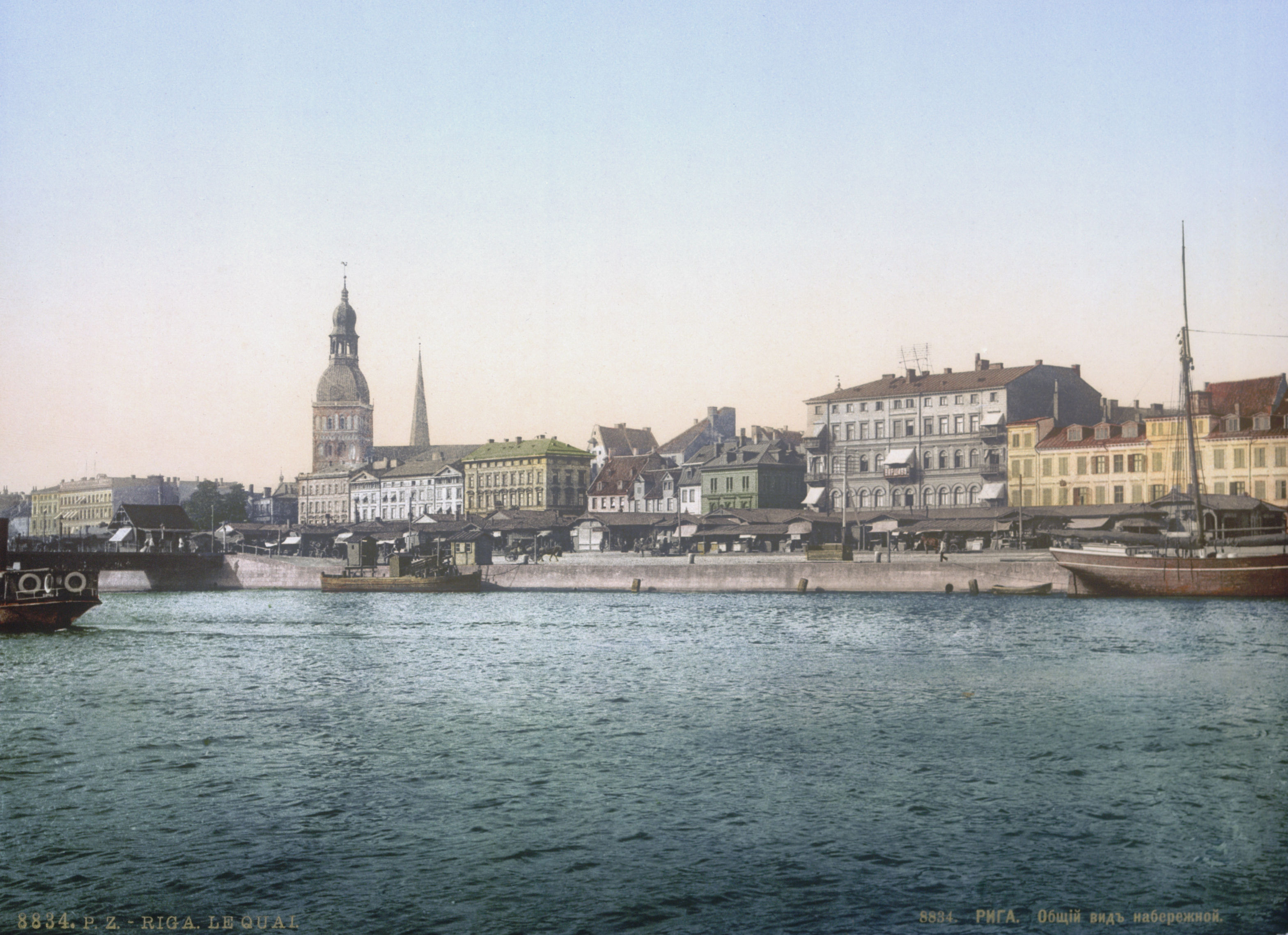 Panorama by the quay, Riga, Russia, (i.e., Latvia)